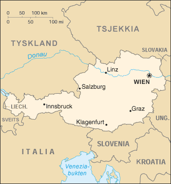 CIA map from the World Factbook of Austria with Norwegian text